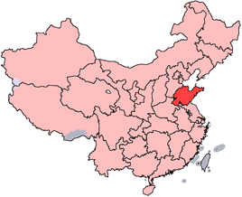 Location of Shandong Province in the People's Republic of China. See Locator maps of province-level divisions of the People's Republic of China for more information.